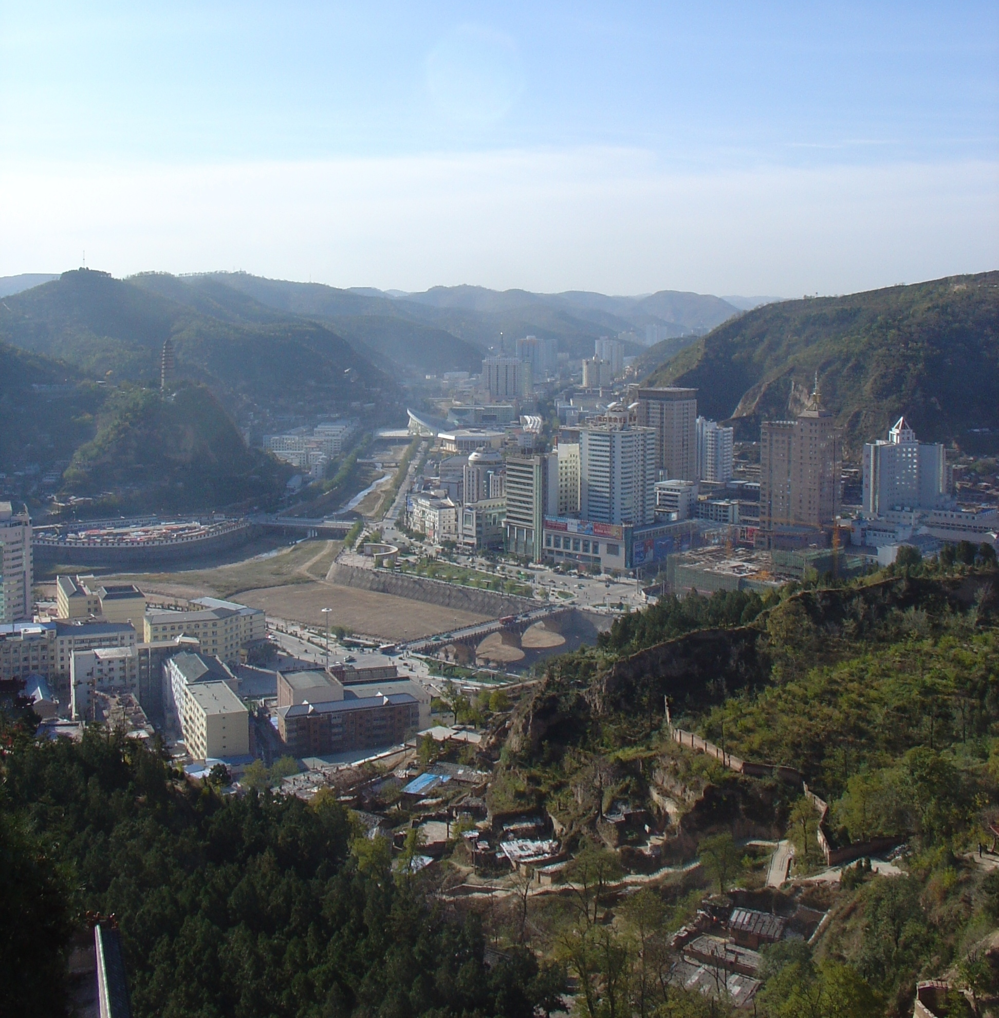 City of Yan'an, Shaanxi Province.